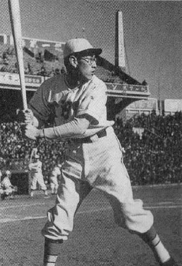 A baseball player from Japan, Kaoru Betto